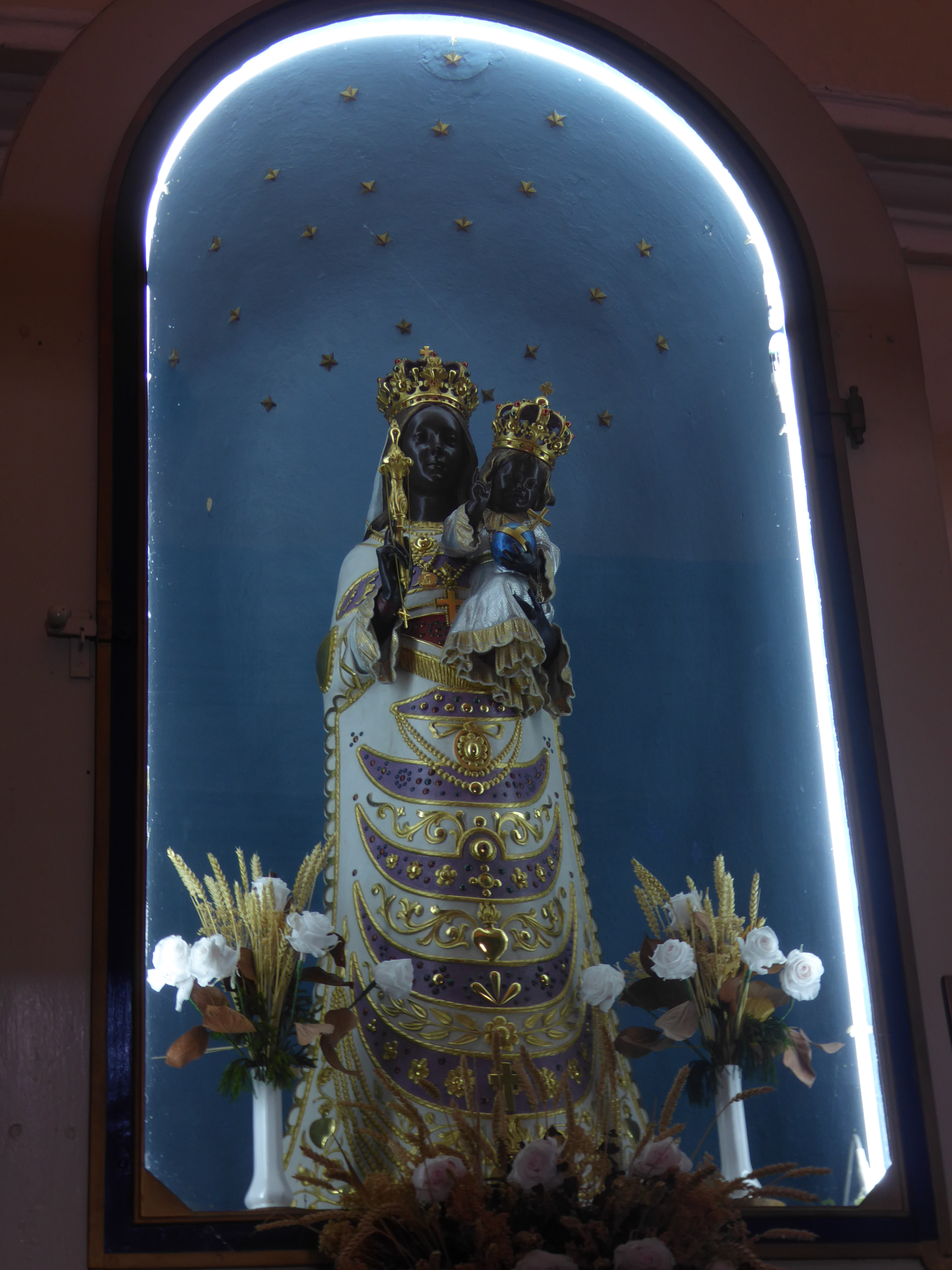 The church of Our Lady of Loreto in th graveyard of Strigno (Trentino, Italy) - Statue of the Black Madonna